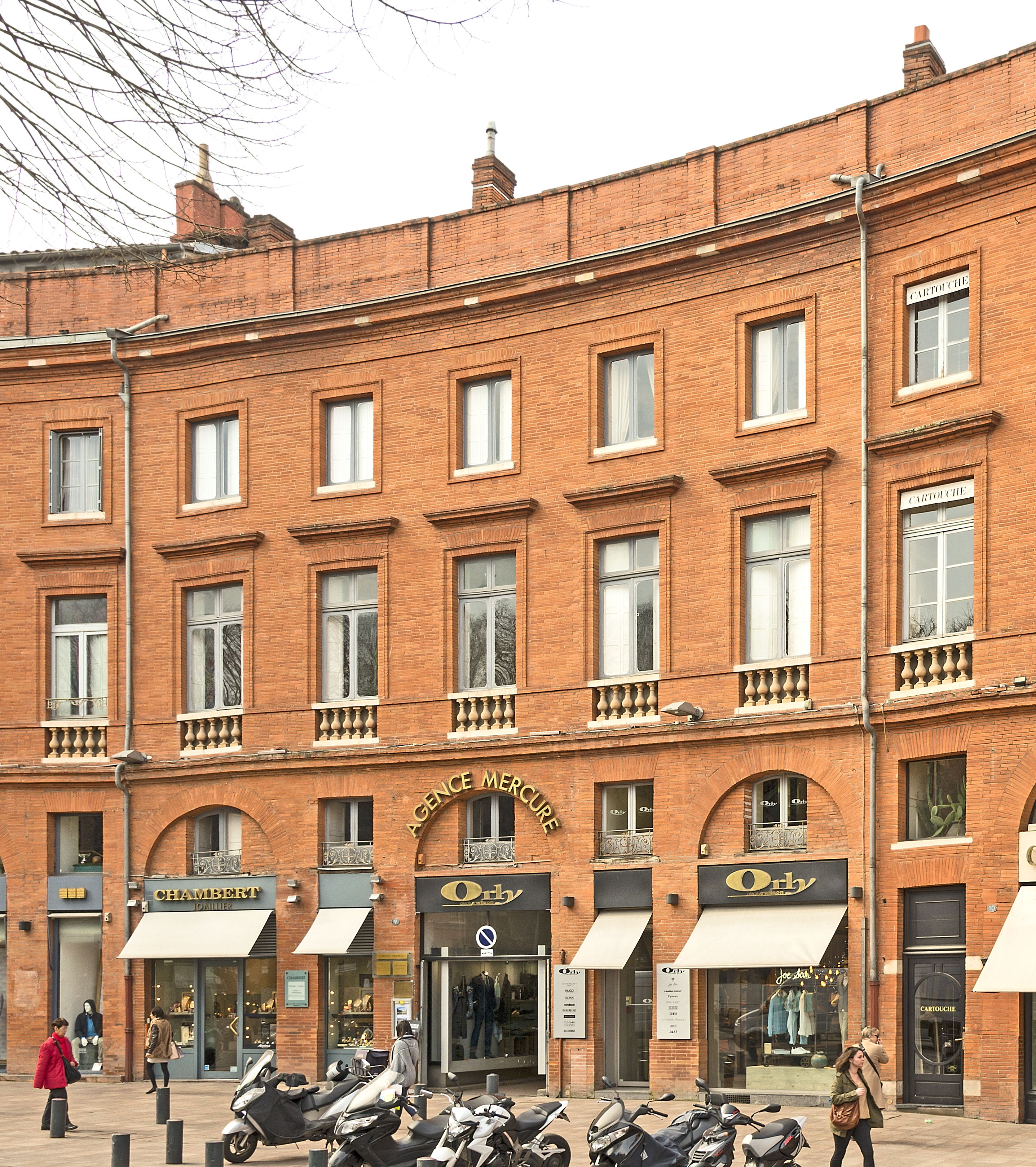 Facades of Building 9 place of President Thomas Wilson, Toulouse, by Jacques-Pascal Virebent.